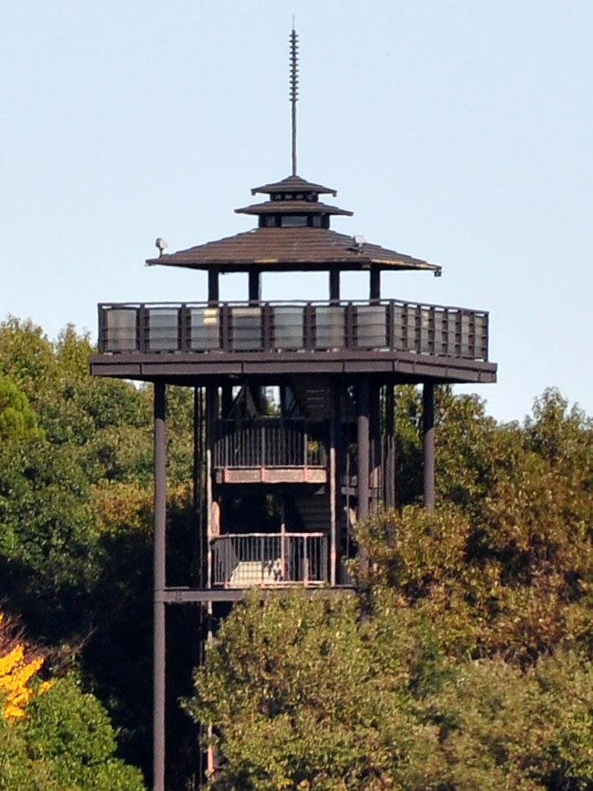 Fine Tower in Shiroyama Park in Inagi, Tokyo, Japan.